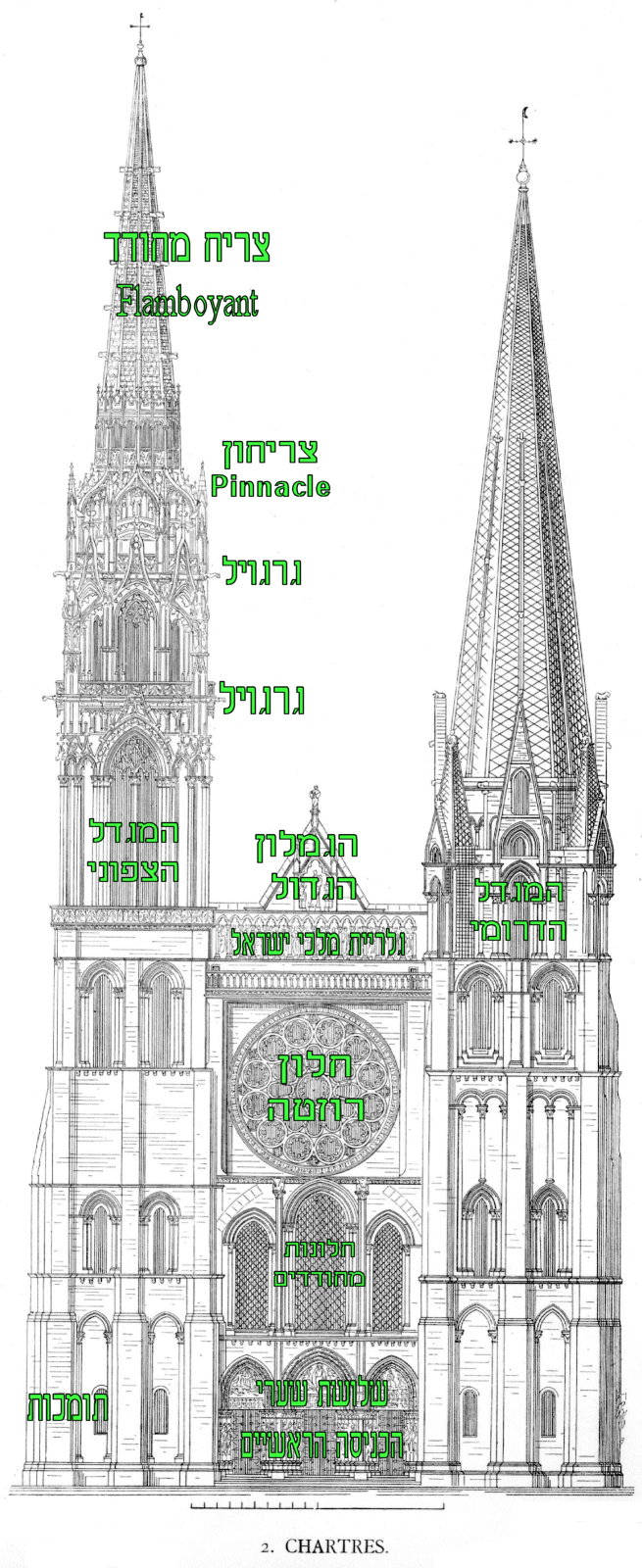 The parts of the Gothic west facade in Hebrew Based on Image:ChartresWestEndDB407.jpg חלקי החזית המערבית הגותית Author: MathKnight